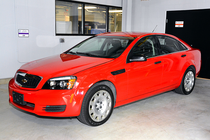 Propane Chevy Caprice powertrain control demonstration vehicle